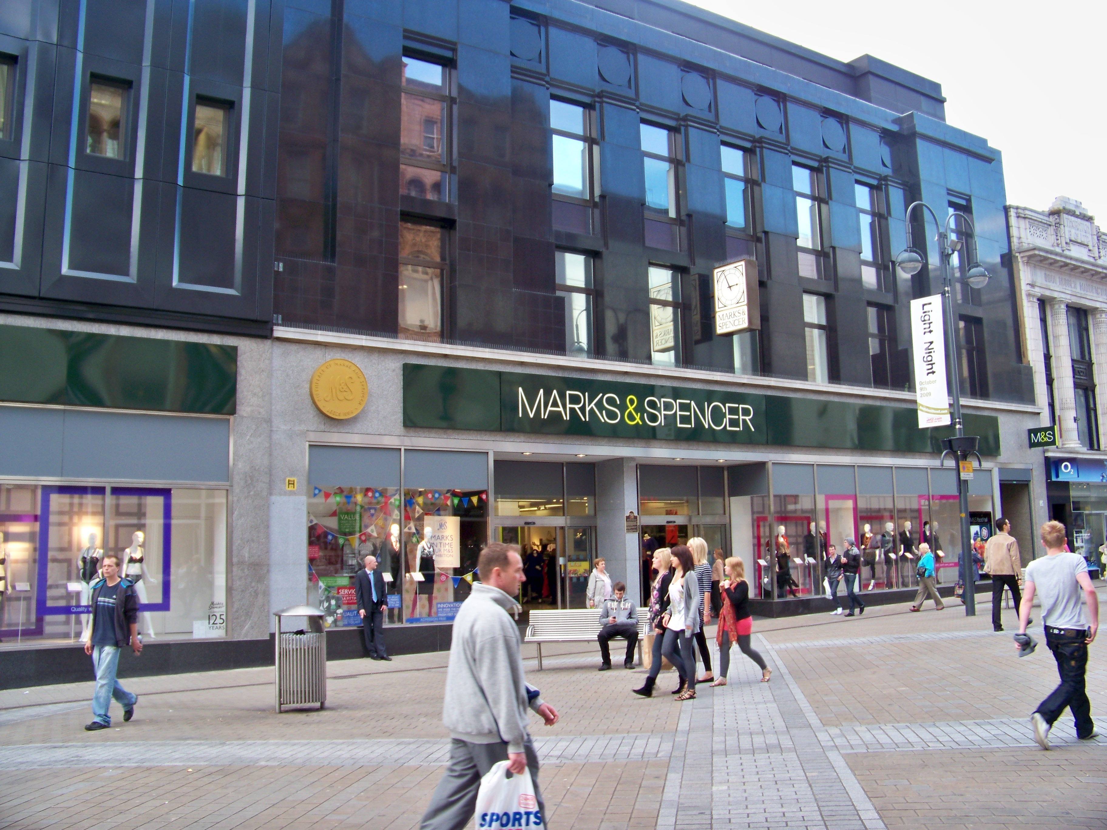 Marks & Spencer on Briggate following a recent refurbishment and an external facelift. The branch on Briggate is the largest in Leeds, the city where the chain was founded. Taken on the afternoon of Tuesday 15th September 2009.